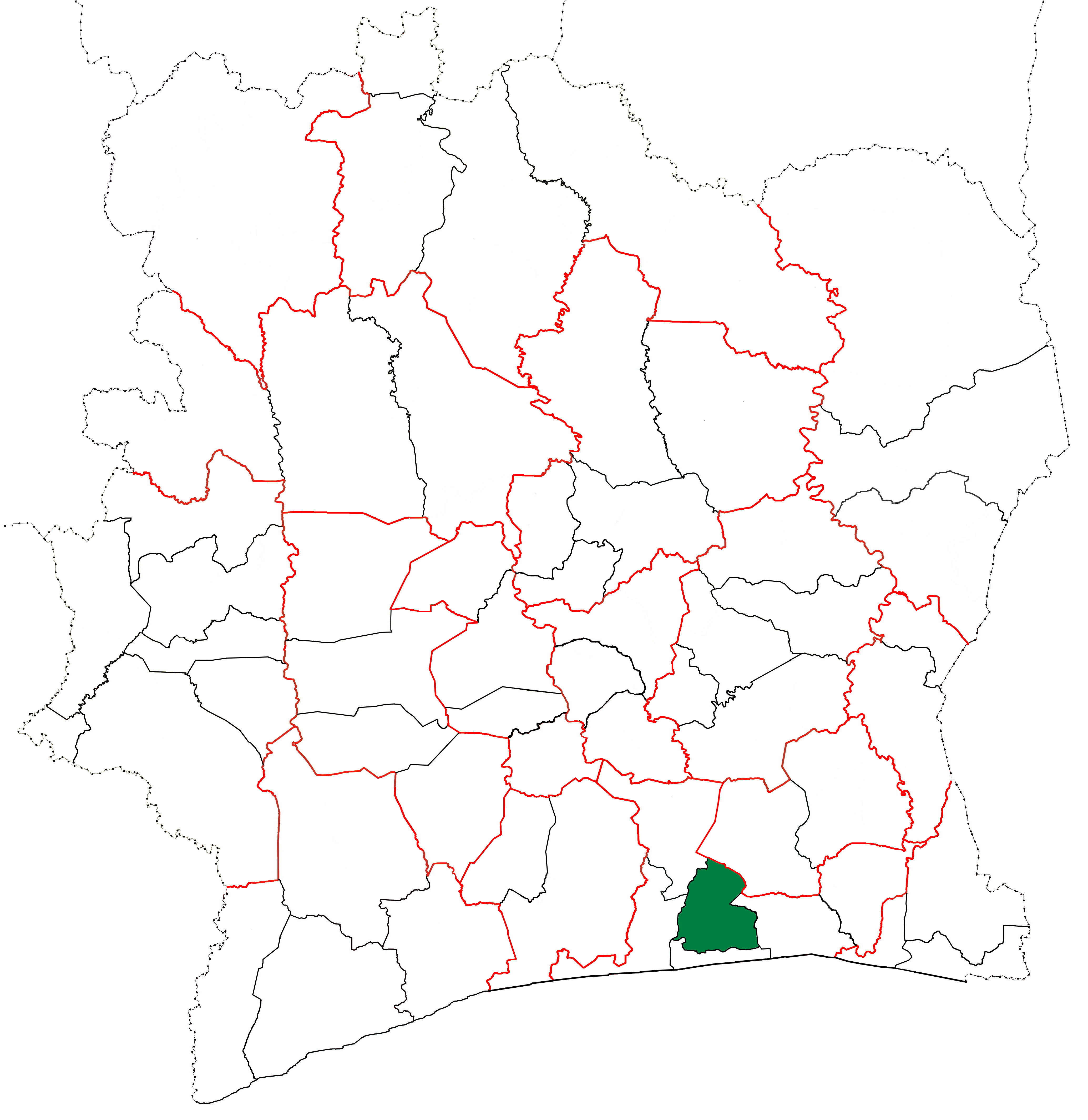 Locator map for Dabou Department in Côte d'Ivoire when it was created in 1998. Dabou Department kept these boundaries until 2005, but other boundary changes to subdivisions of Côte d'Ivoire began to be made in 2000.